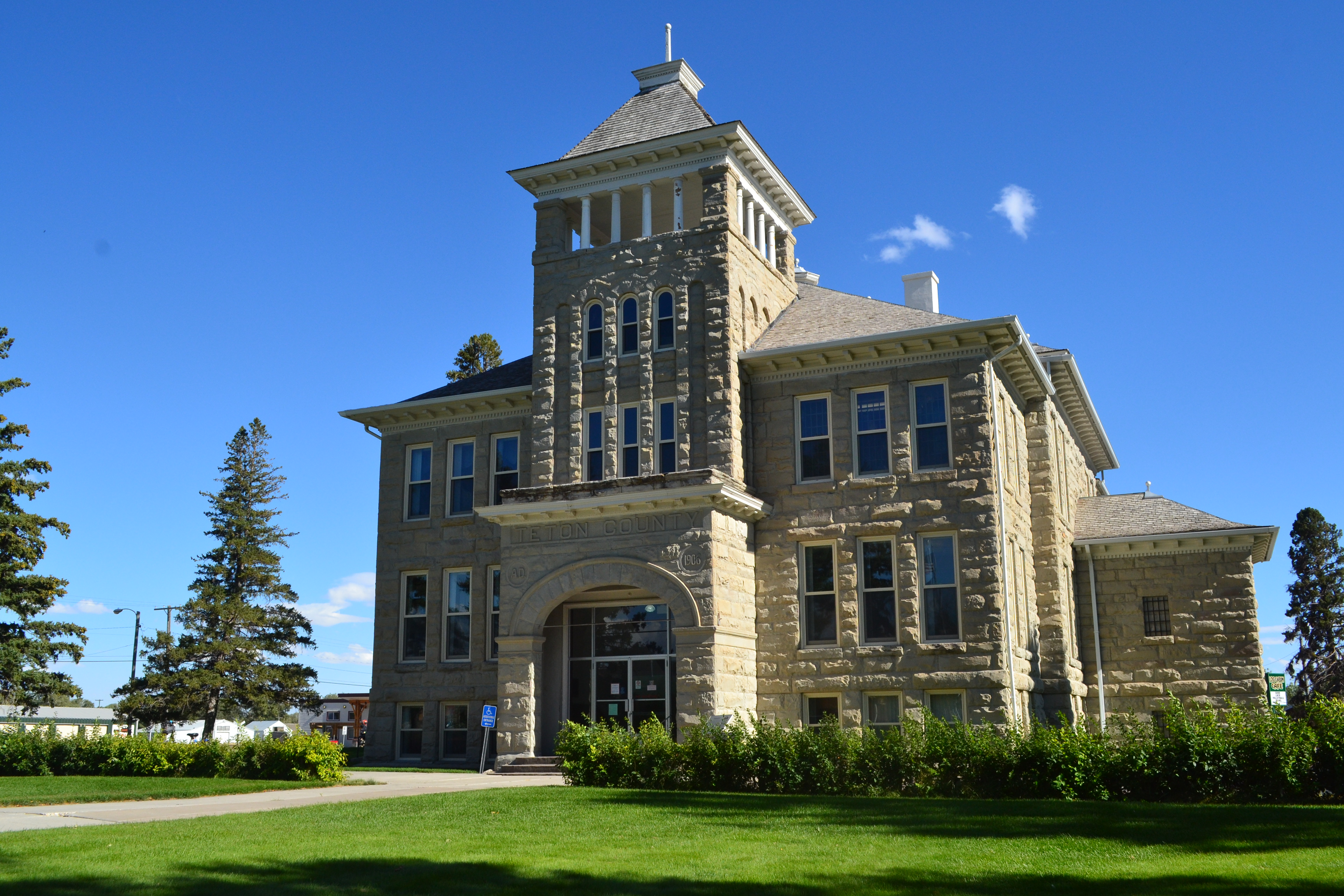 Teton County Courthouse in Choteau, Montana